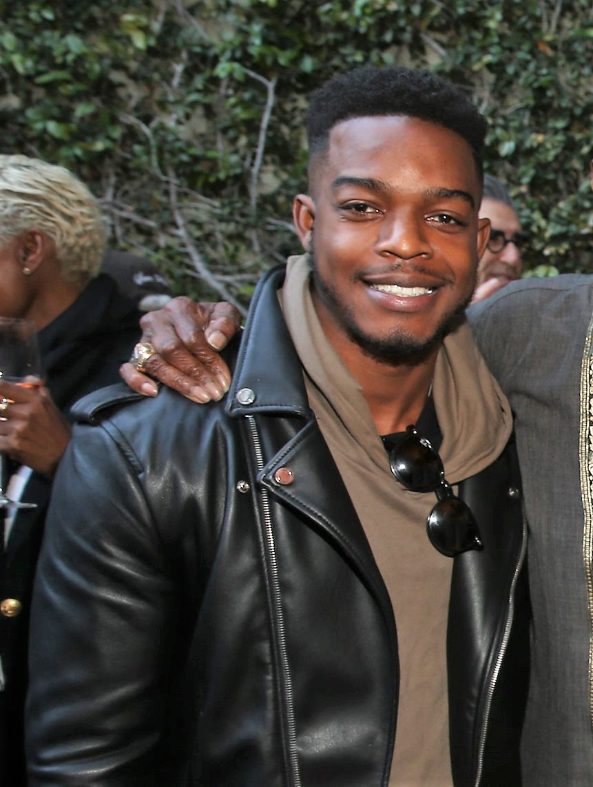 Stephan James